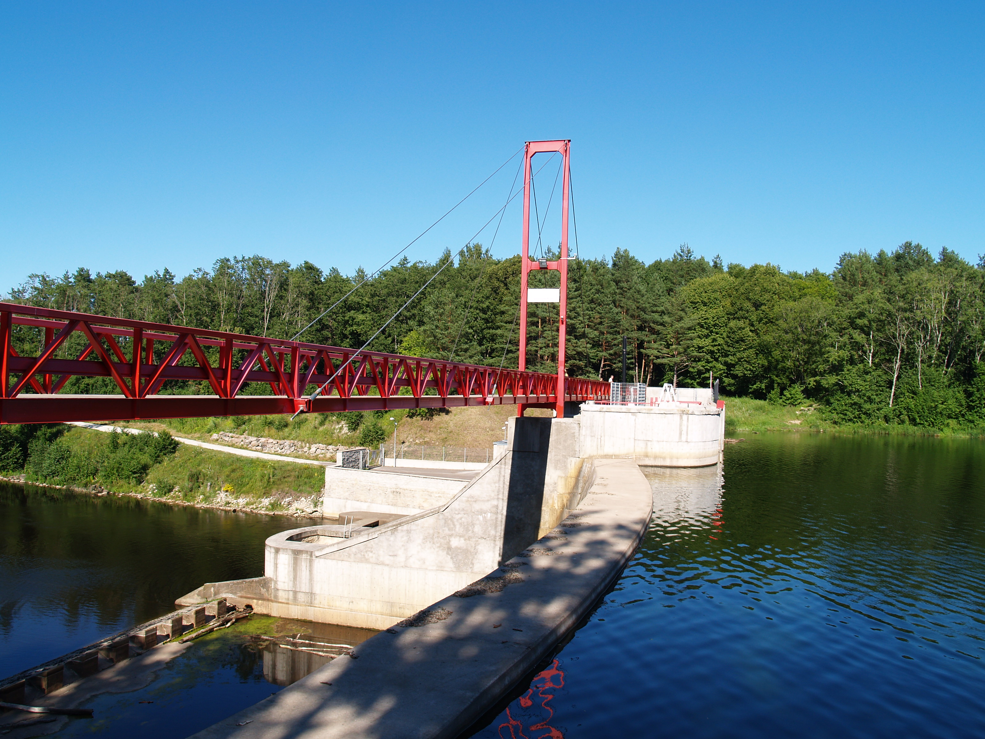 Linnamäe hydroelectric power station in Estonia